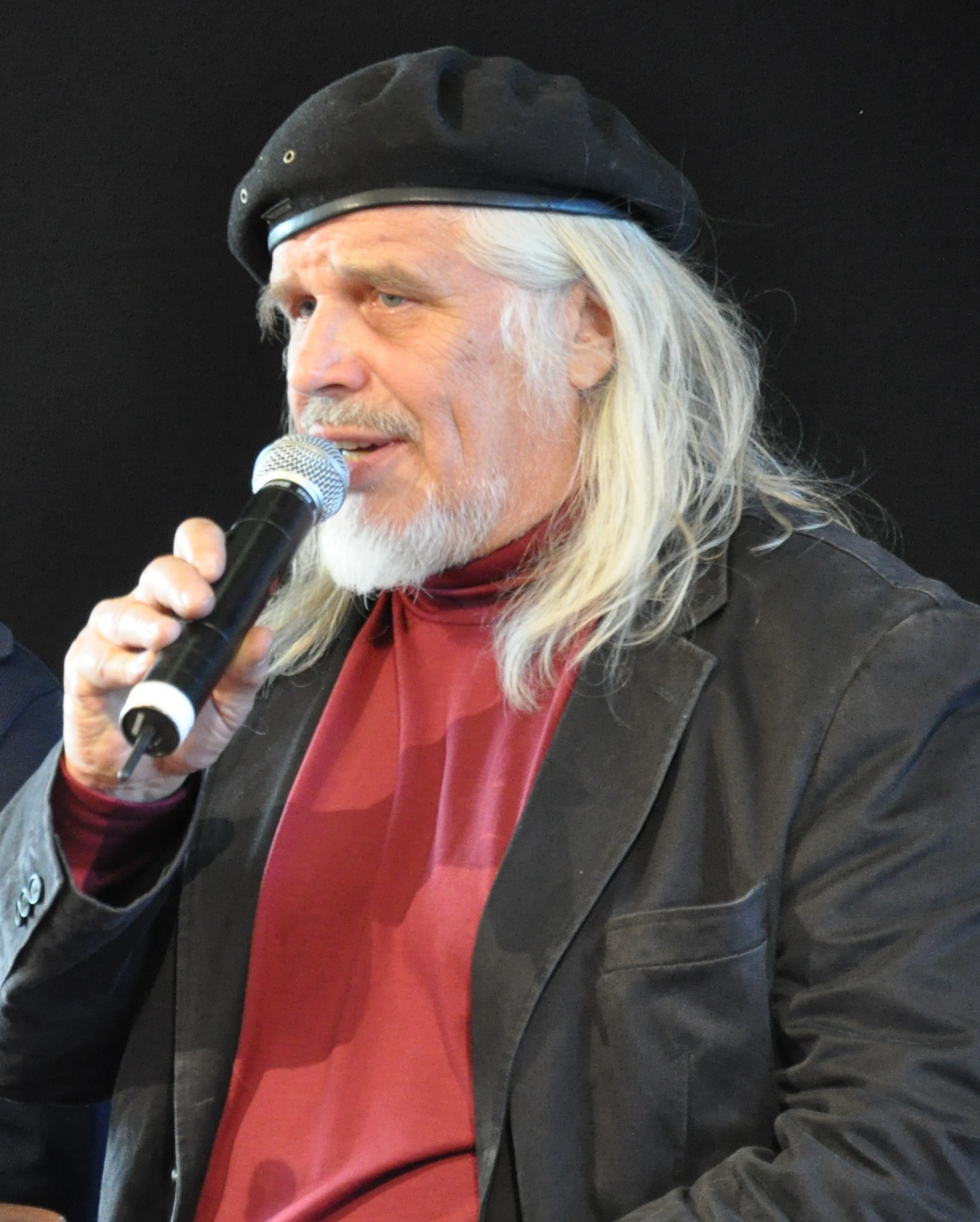 Finnish writer Heikki Turunen at the Turku Book Fair 2009.